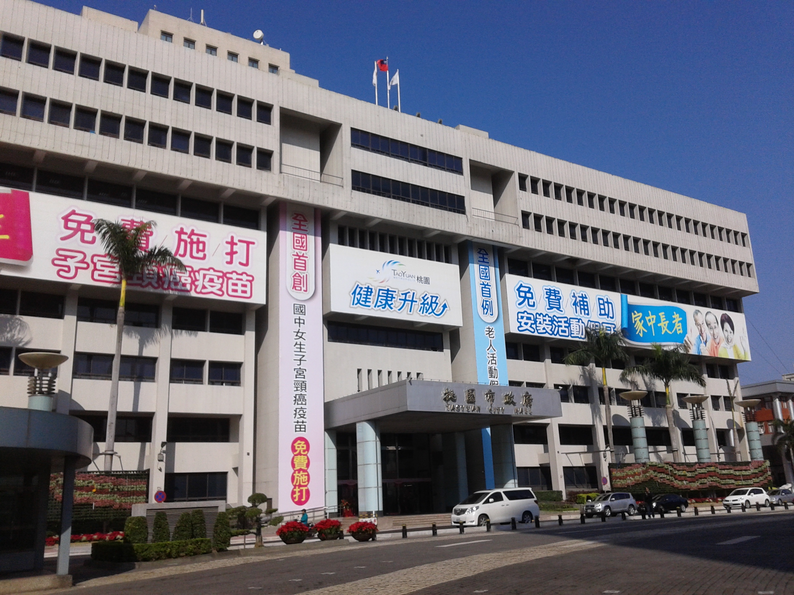 Taoyuan city hall